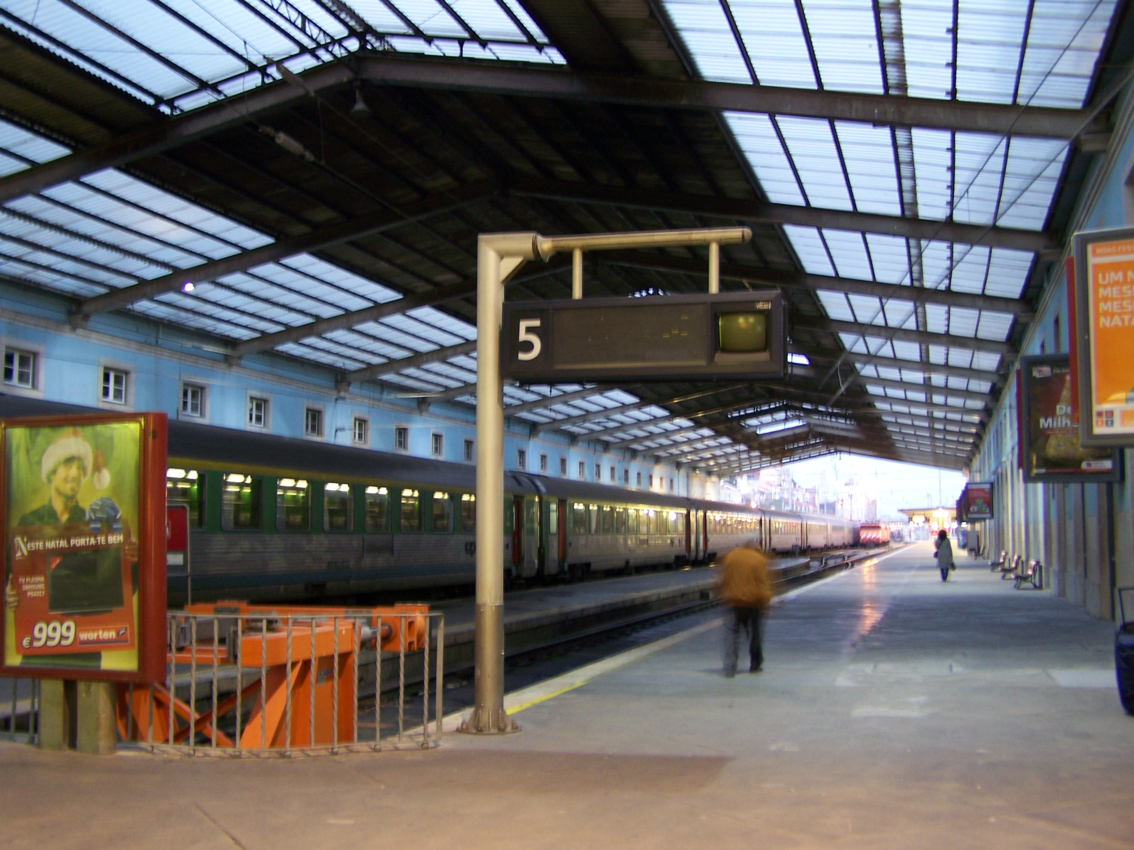 The terminus station Lisboa-Santa Apólonia. Here the trains are terminating from the north of Portugal, from Spain, France, etc.